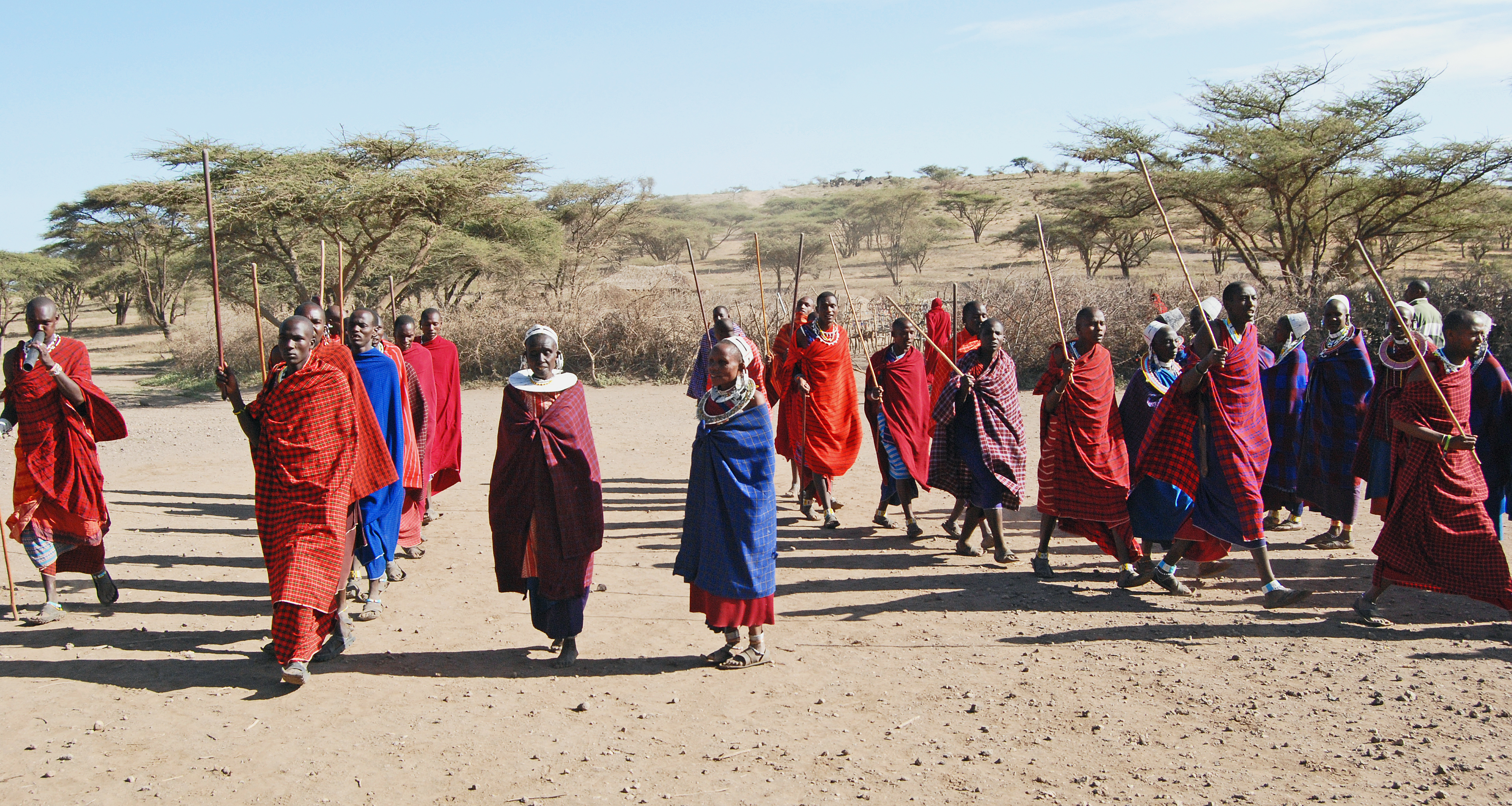 Traditional Dance welcoming us into a Ngorongoro Maasai Village / The Maasai are a Nilotic [Nile Valley] ethnic group of semi-nomadic people located in Kenya and northern Tanzania